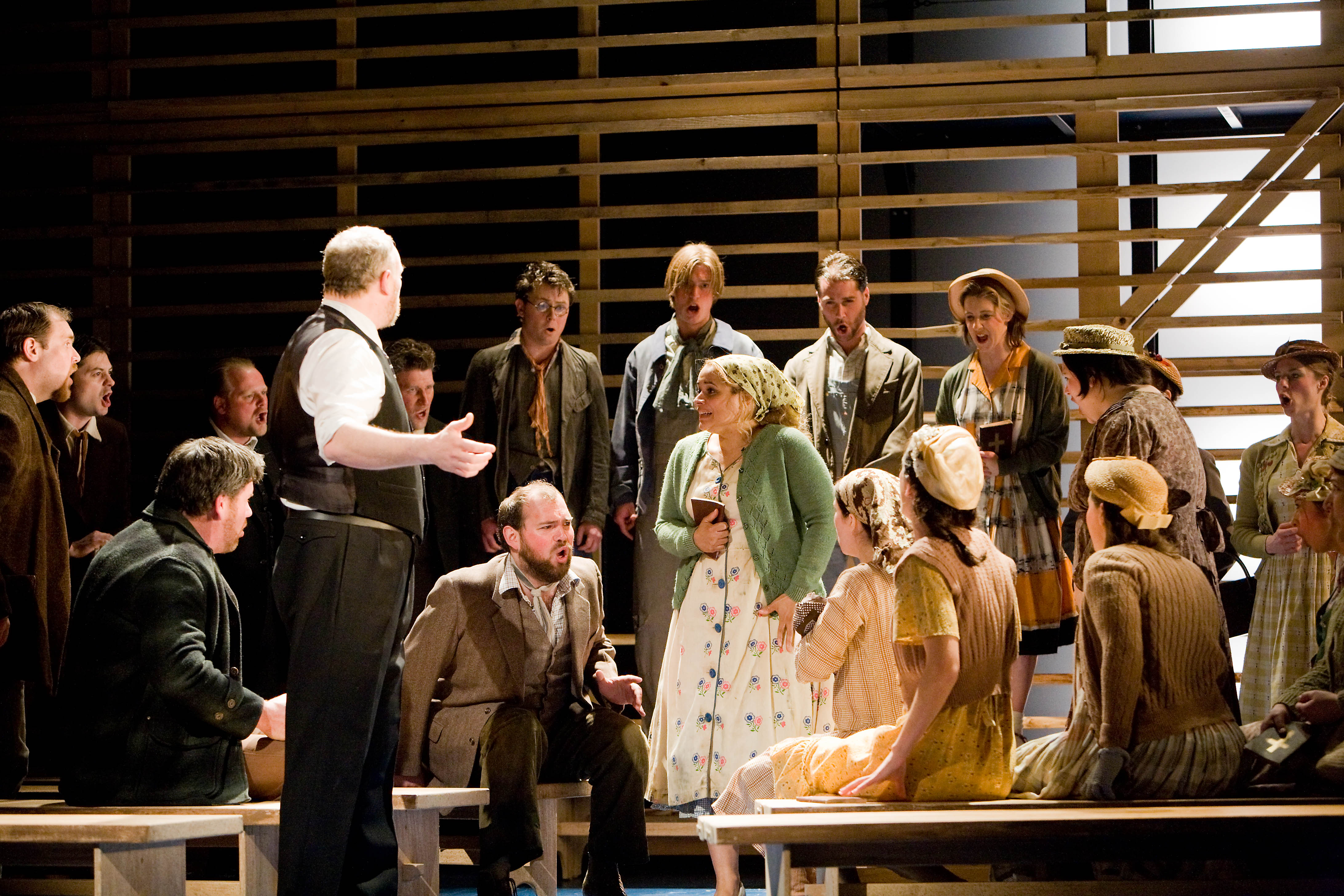 English Touring Opera Spring 2008 Production of Carlisle Floyd's Susannah with Andrew Slater as Blitch and Donna Bateman as Susannah